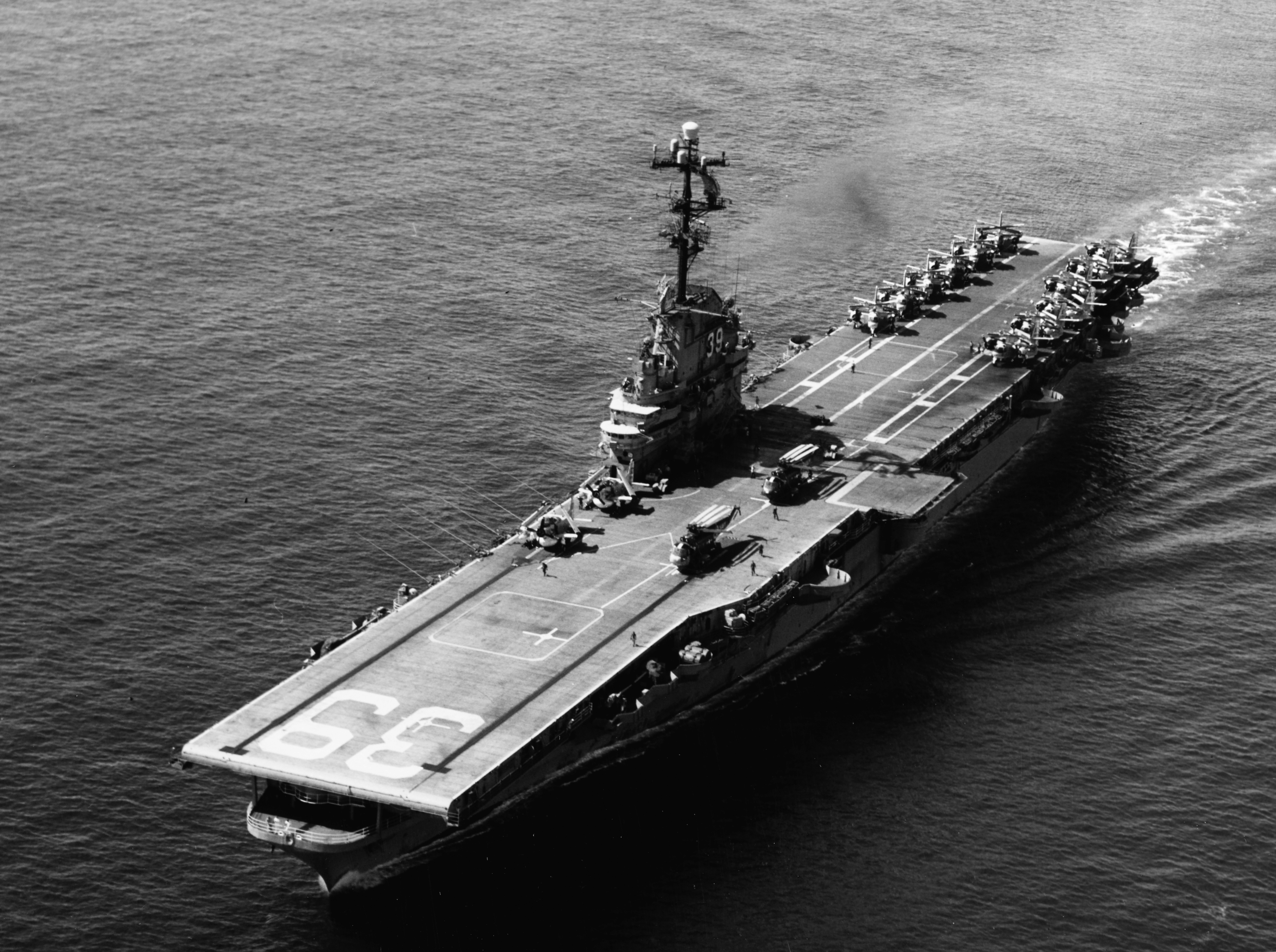 The U.S. Navy aircraft carrier USS Lake Champlain (CVS-39) underway in February 1965. Aircraft of Carrier Anti-Submarine Air Group 54 (CVSG-54) are visible on deck.